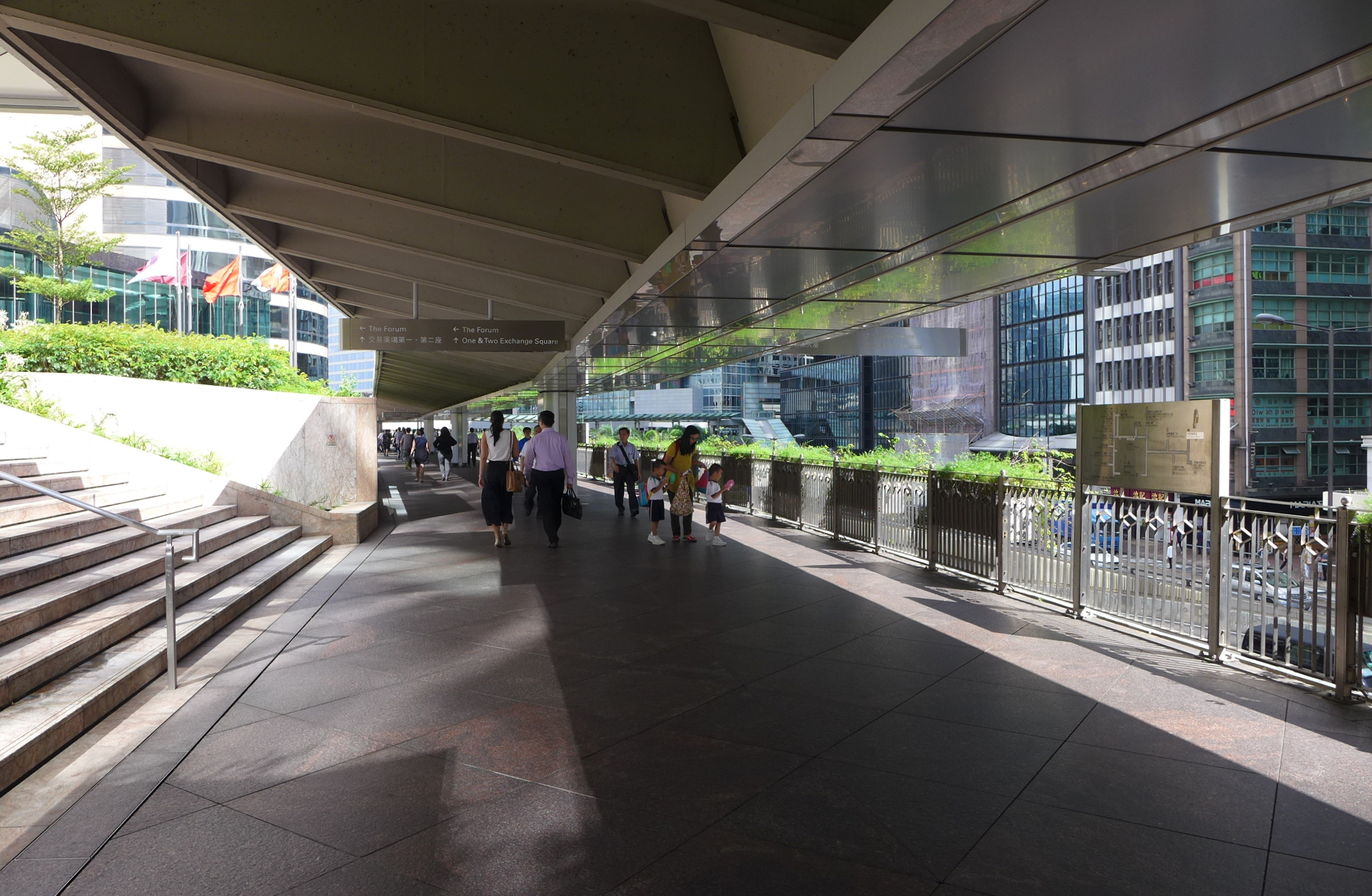 The Central Elevated Walkway near Exchange Square